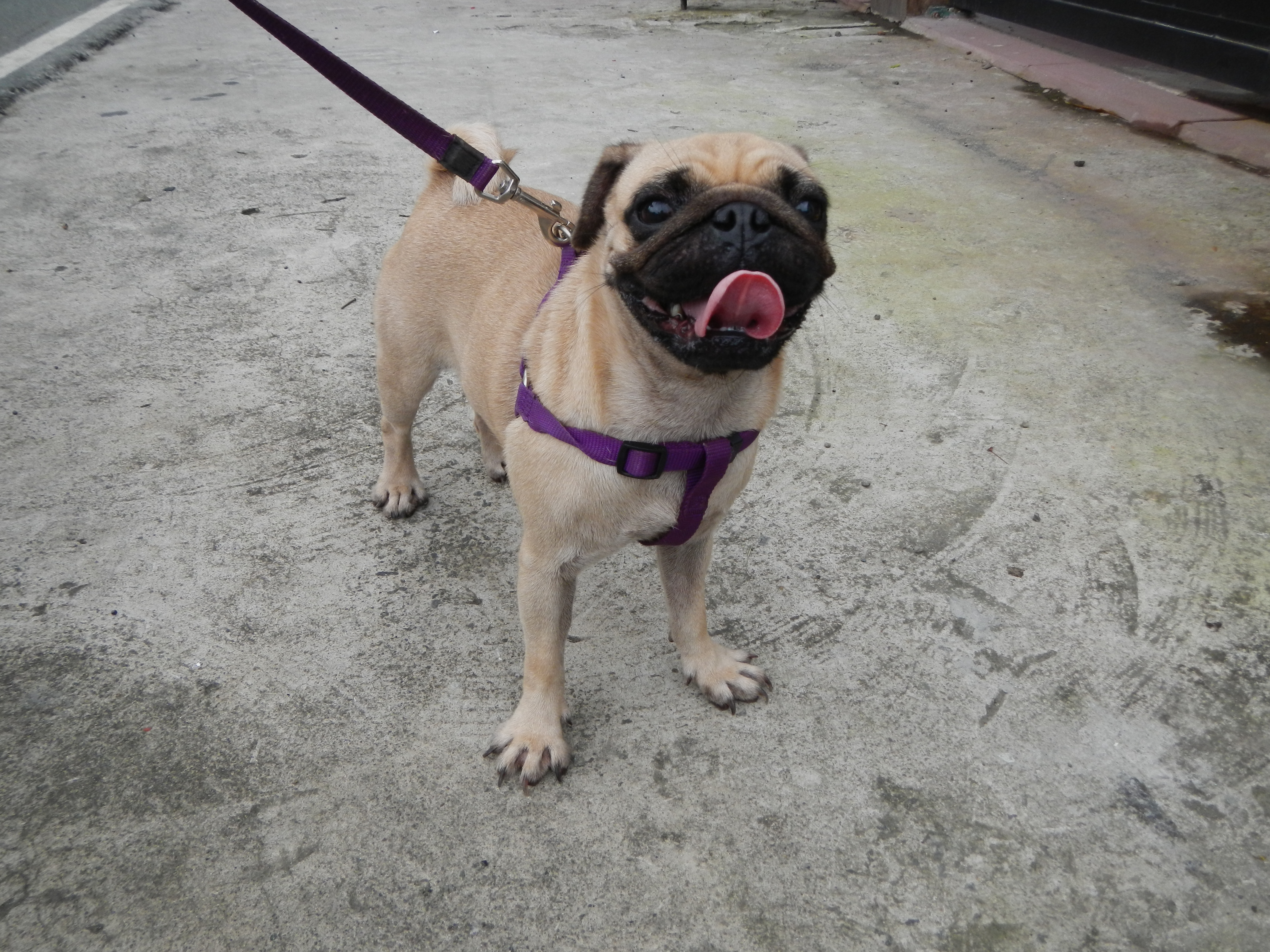 Pet dog in -- Barangay Poblacion I, downtown, the ancestral or heritage houses and the Welcome Marker -"Alaminos Town of Coramblan" JP Rizal St., going to or very near the Municipal Town Hall and Church -- of Alaminos, Laguna[1] 2013 Election Results [2] [3]Website] Eladio M. Magampon Municipal Mayor Demetrio P. Hernandez Jr. Municipal Vice-Mayor Land Area: 5,473 has. Alaminos is a third class municipality in the province of Laguna, [4] Philippines. According to the latest census, it has a population of 40,380 people in 7,466 households. It has a land area of 21.11 square miles (54.7 km2) and is situated 48.5 miles (78.1 km) southeast of Manila. [5] Coordinates: 14°2'31"N 121°14'50"E [6] Geographical location: Laguna, Region 4, Philippines, Asia Geographical coordinates: 14° 3' 46" North, 121° 14' 53" East This place is situated in Laguna, Region 4, Philippines, its geographical coordinates are 14° 3' 46" North, 121° 14' 53" East and its original name (with diacritics) is Alaminos.